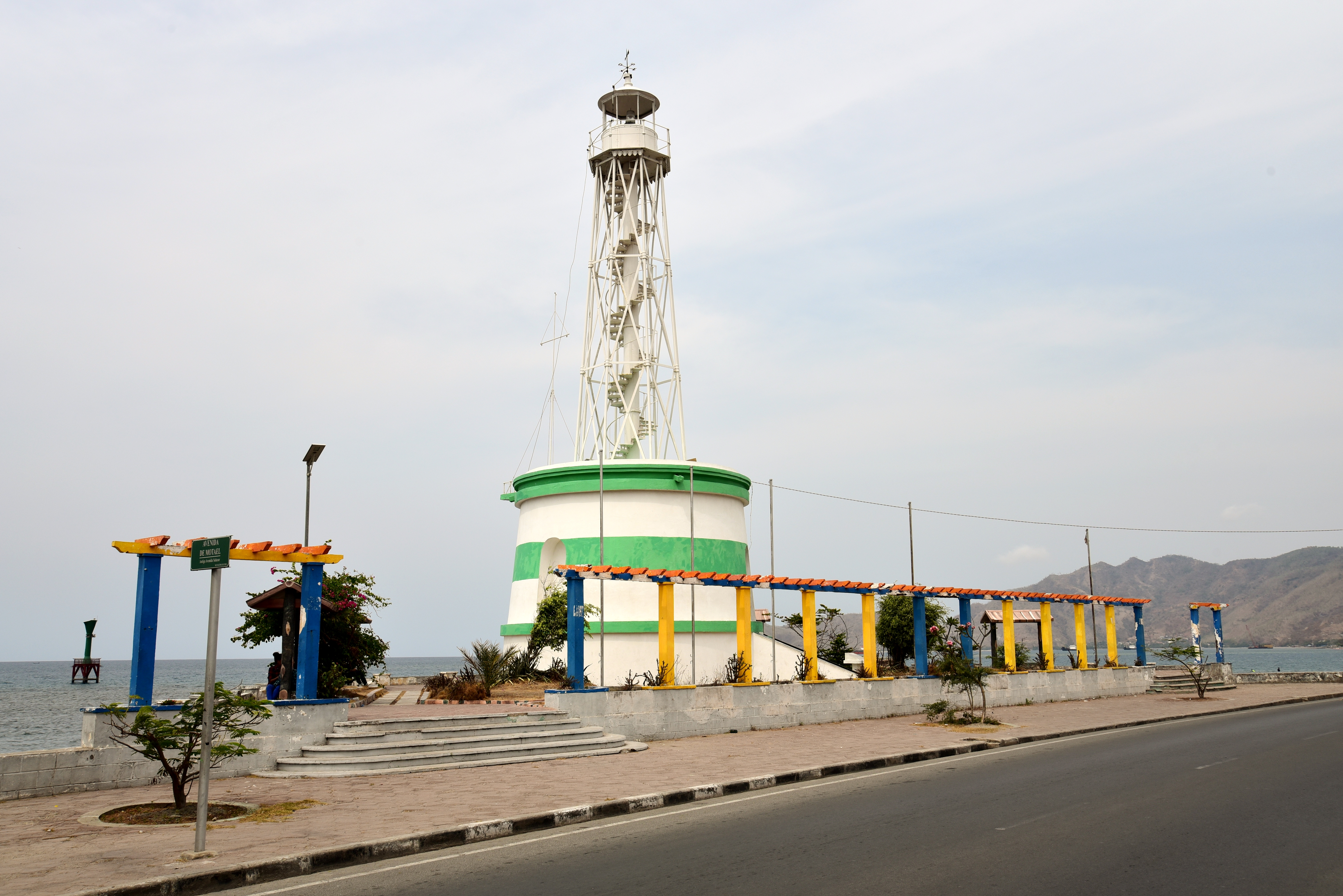 View of the Dili Harbor Lighthouse